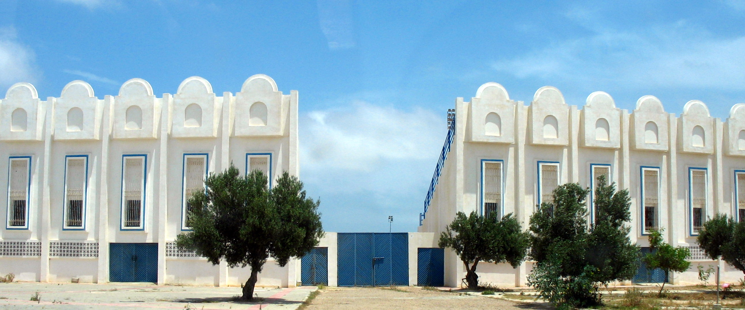 Djerba (Tunisia).